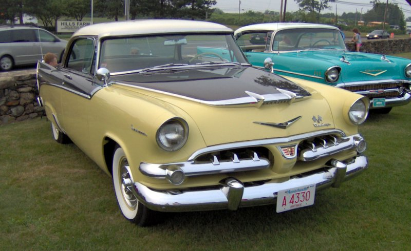 1956 Dodge Custom Royal Lancer, on the right a 1957 Chevrolet